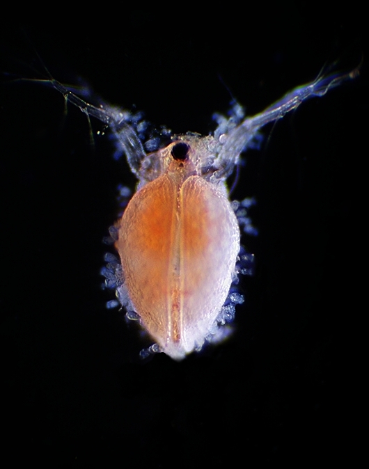 Ceriodaphnia and Vorticella